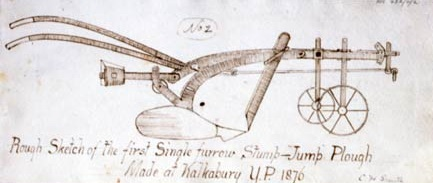 A plan of the a stump-jump plough from 1876; from State Library of South Australia